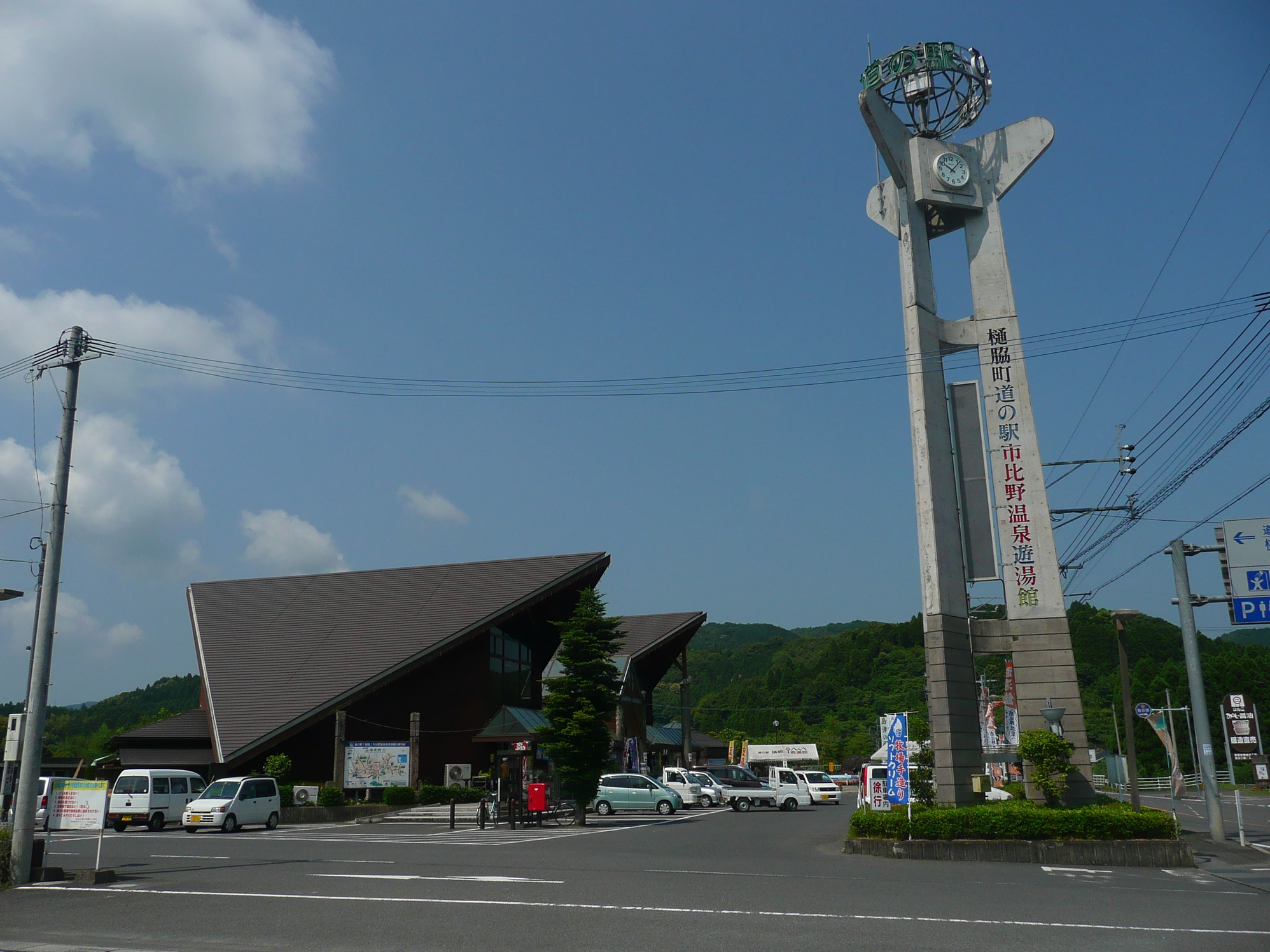 Michinoeki Hiwaki in Hiwaki, Satsumasendai City, Kagoshima Prefecture, Japan